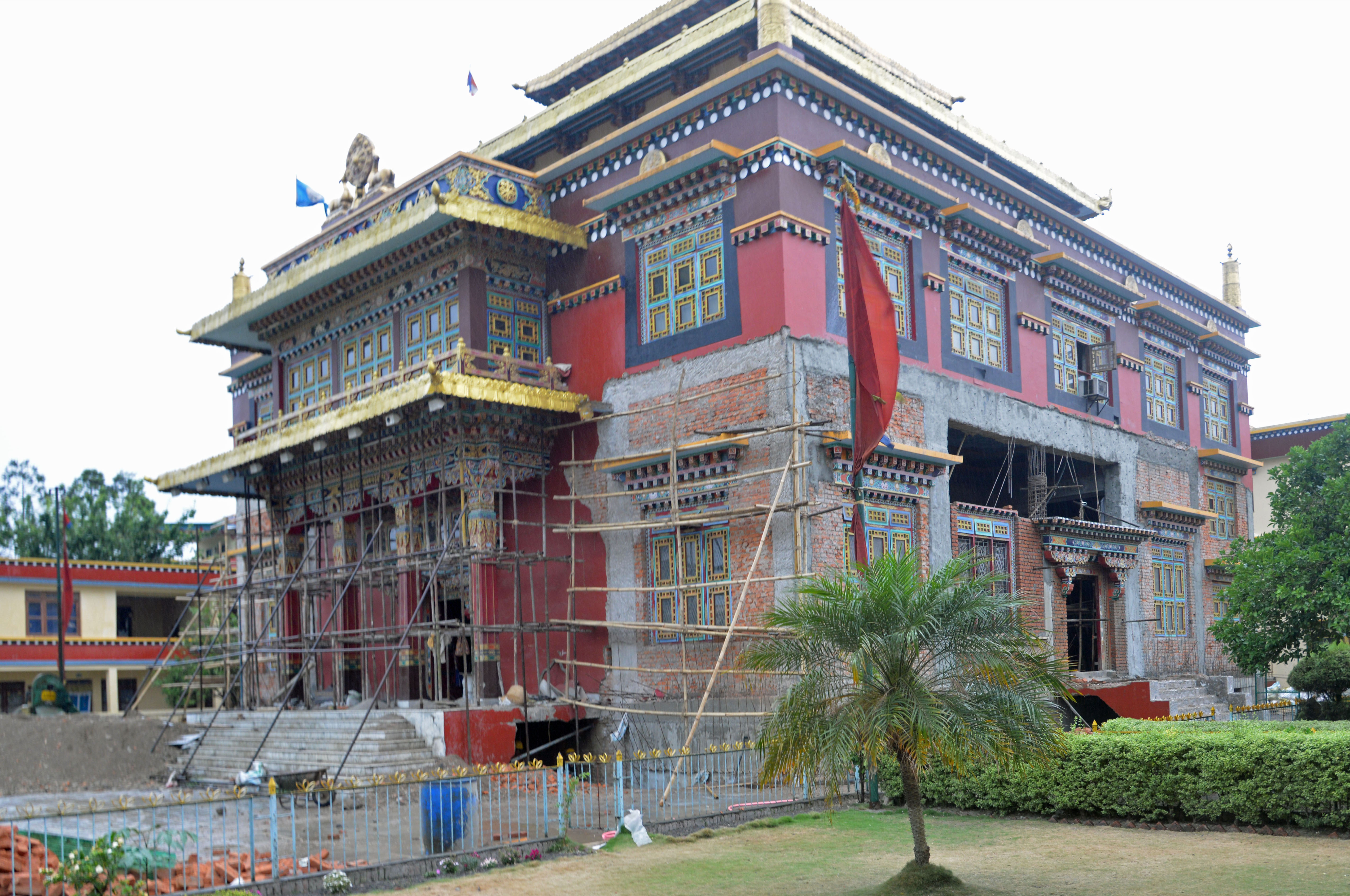 Sechen Monastery, Boudhanath during reconstruction after 2015 earthquake damage.